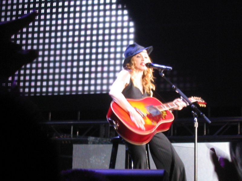 Madonna Concert